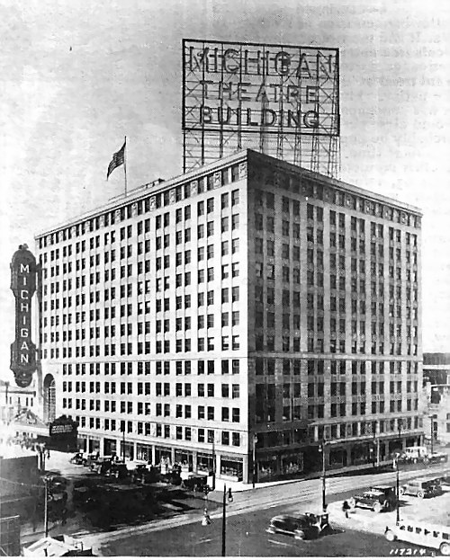 The Michigan Theatre shortly after opening.